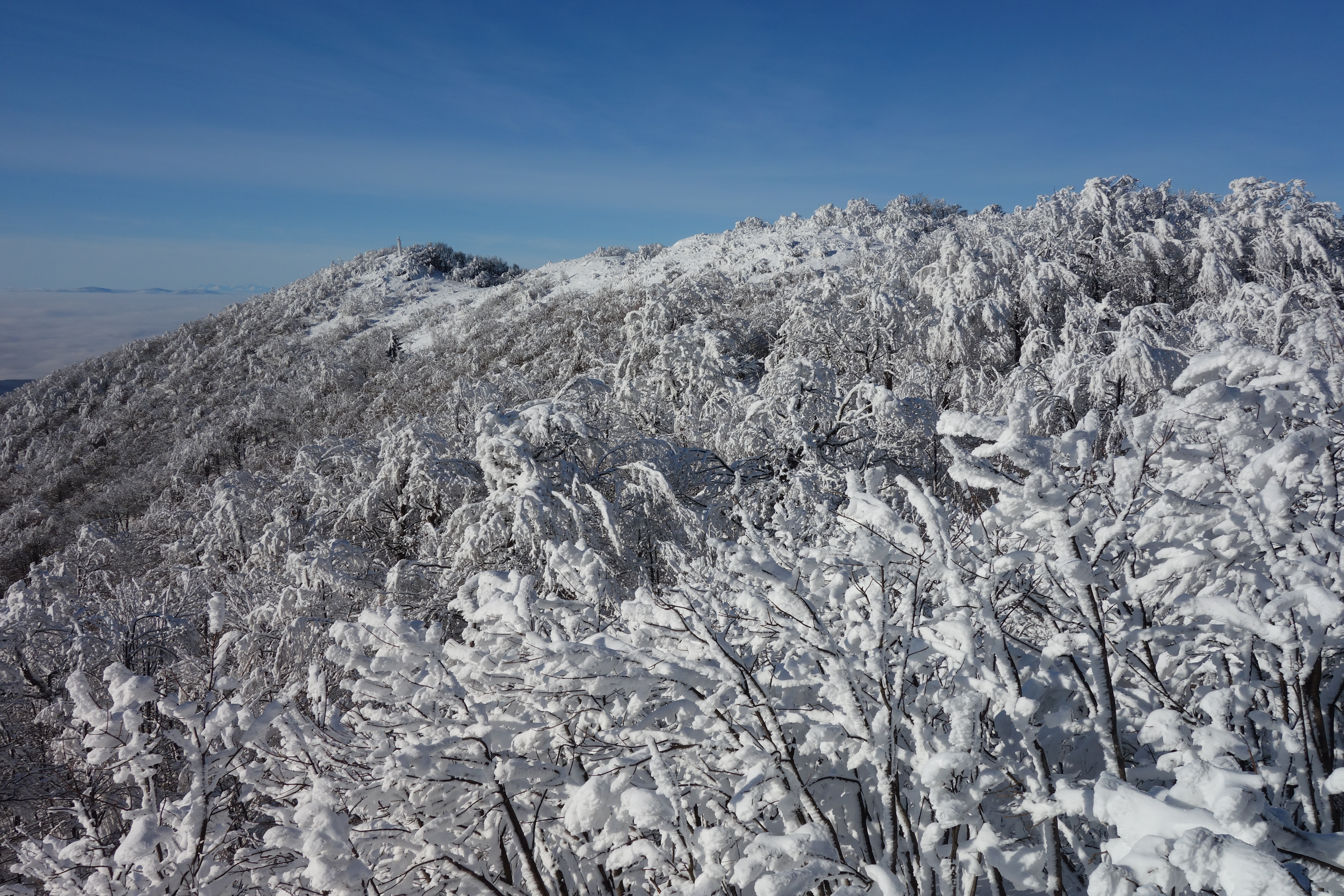 Vihorlat in the winter, view from the east peak to the west peak This is a photography of Natura 2000 protected area with ID SKUEV0025